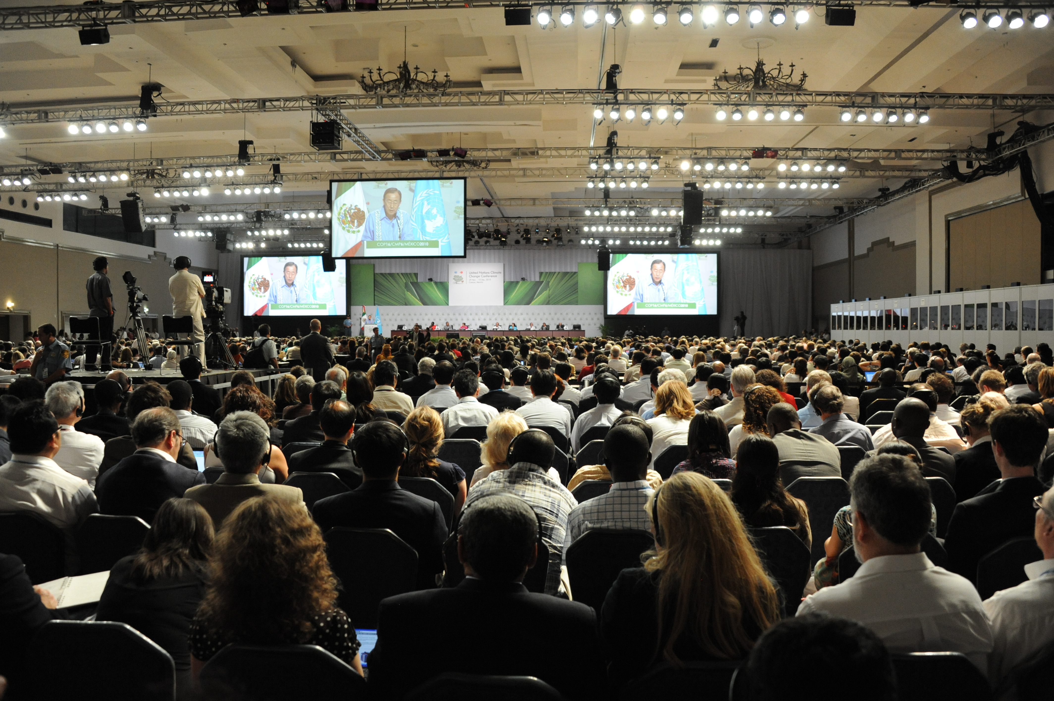 UN Climate Talks 2010. Cancun, Mexico, 2010 (United Nations)